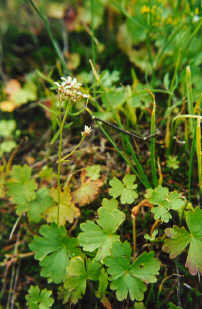 Suksdorfia ranunculifolia, Clearwater National Forest, USA